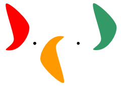 The composition of two point reflections is a translation. The composition of functionscomposition of two point reflections is a translation (geometry)translation.